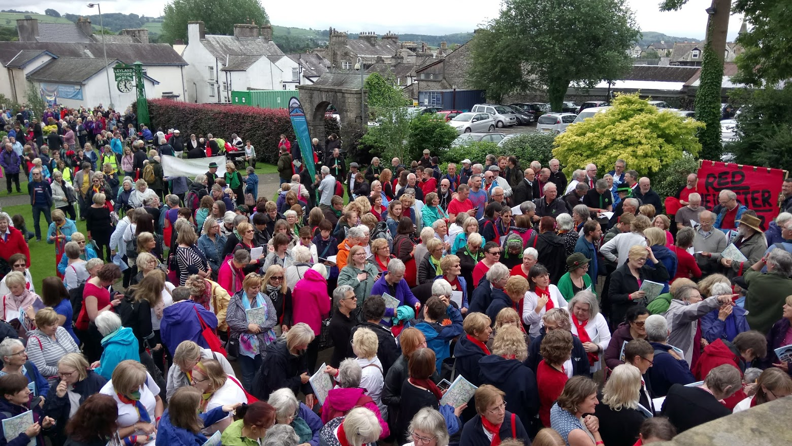 Choirs gathering for the massed sing, Street Choirs Festival, Kendal, June 24th 2017